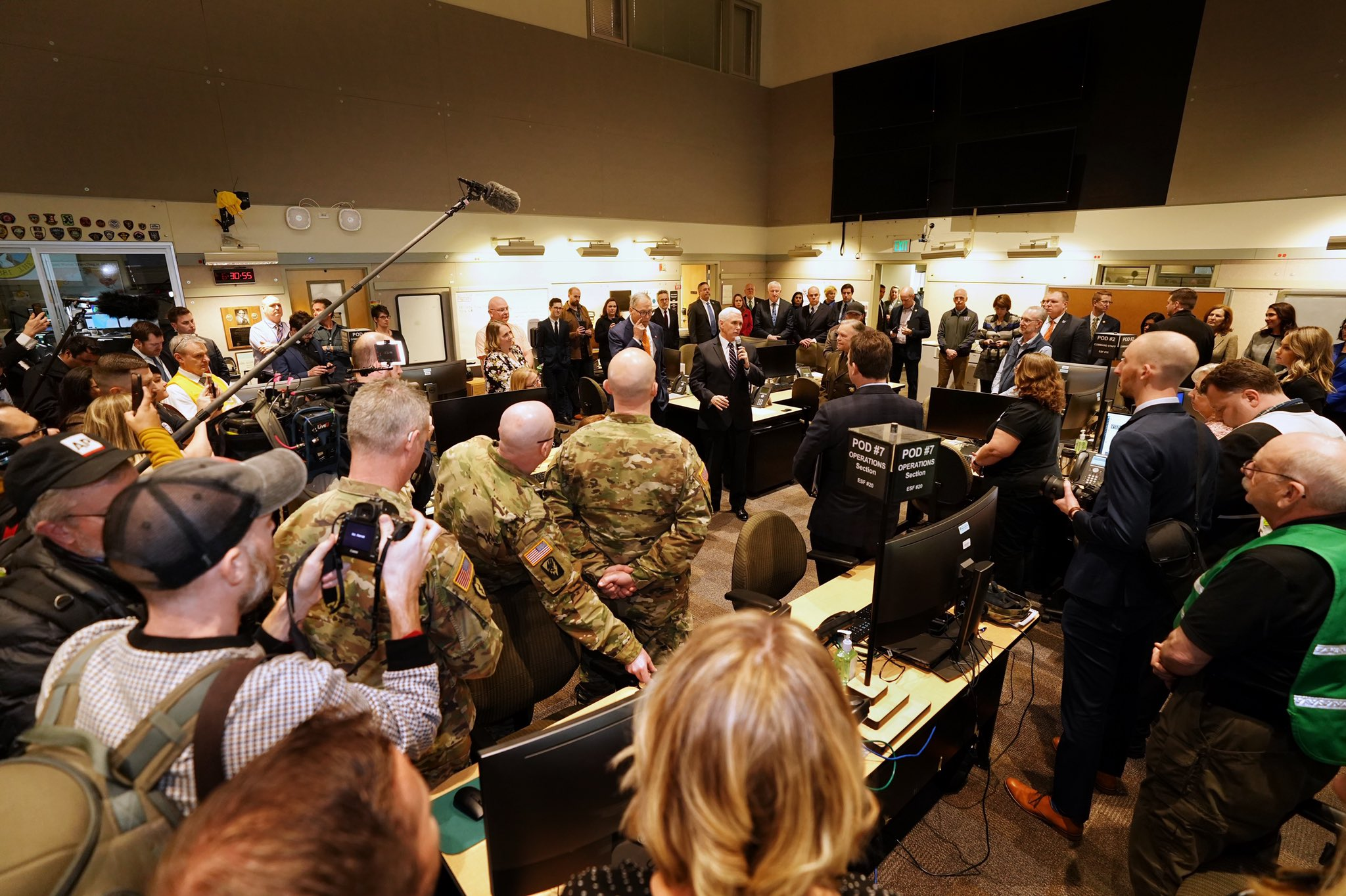 United States Vice President Mike Pence at Washington State Emergency Operations Center in connection with the 2019-2020 coronavirus outbreak